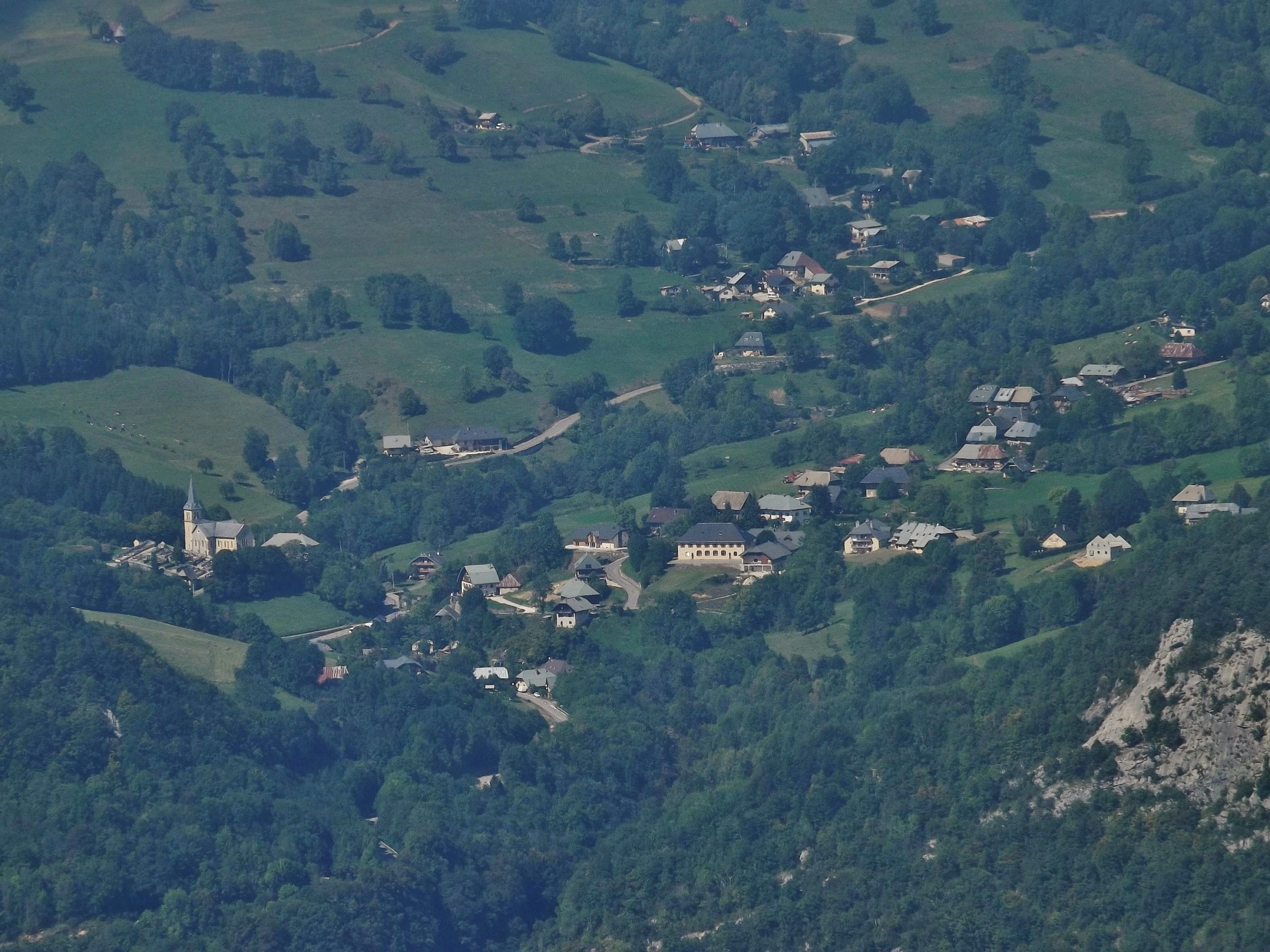 Aerian sight, from the Pointe de la Galoppaz mount, on the French village of Les Déserts, in the Bauges mountains near Chambéry, in Savoie.